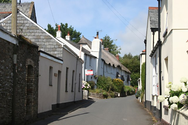 The Main Village Street in Kingston